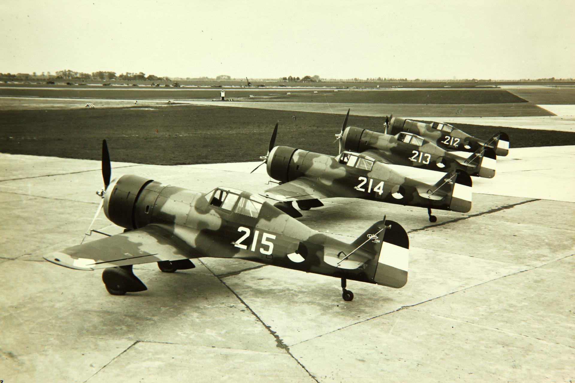 Fokker D.XXI. Netherlands Air Force